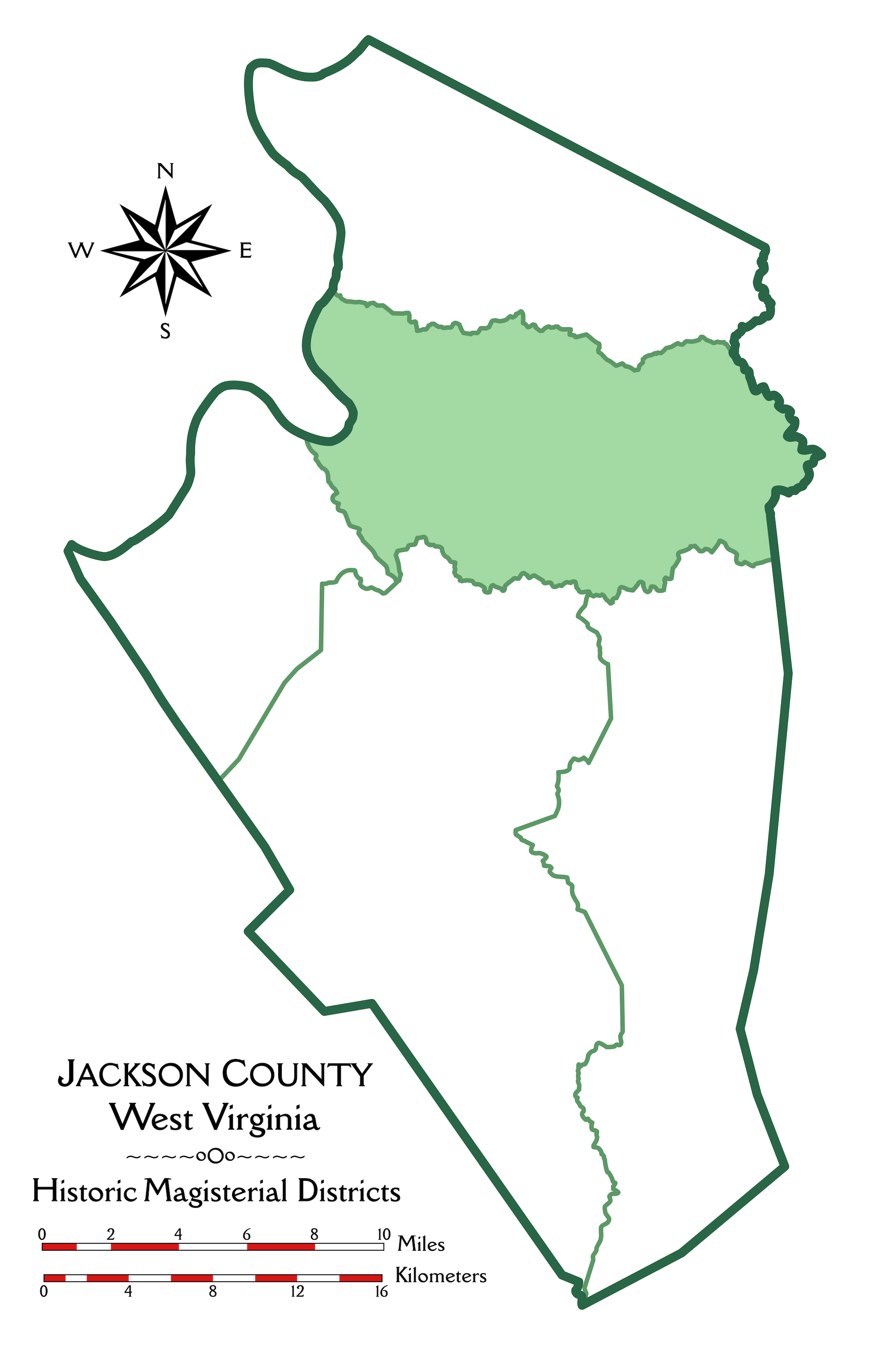 Outline map of Jackson County, West Virginia, showing the boundaries of the historic magisterial districts. Ravenswood District is shaded.